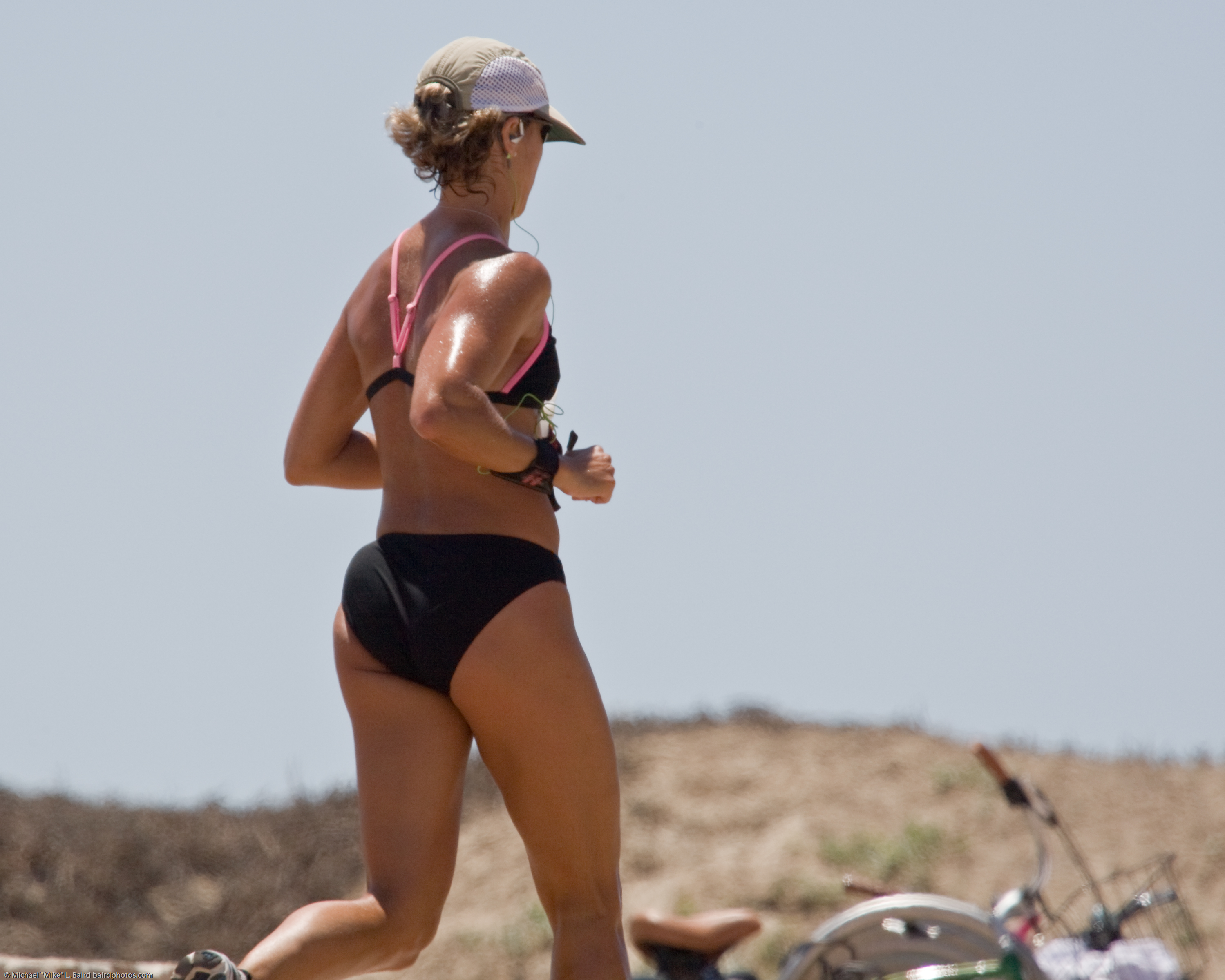 Female jogger with good tan jogging - Scenes from Morro Bay, CA beach next to Morro Rock on the first day of summer 21 June 2008 where temperatures ranged up to 85 degrees F - the sun was very intense burning many but it was easily dismissed due to the cool winds.